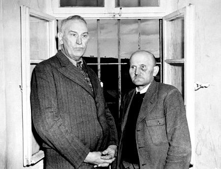 Dr. Adolf Wahlmann (left), chief physician, and Karl Willig (right), assistant male nurse at the Hadamar Institute